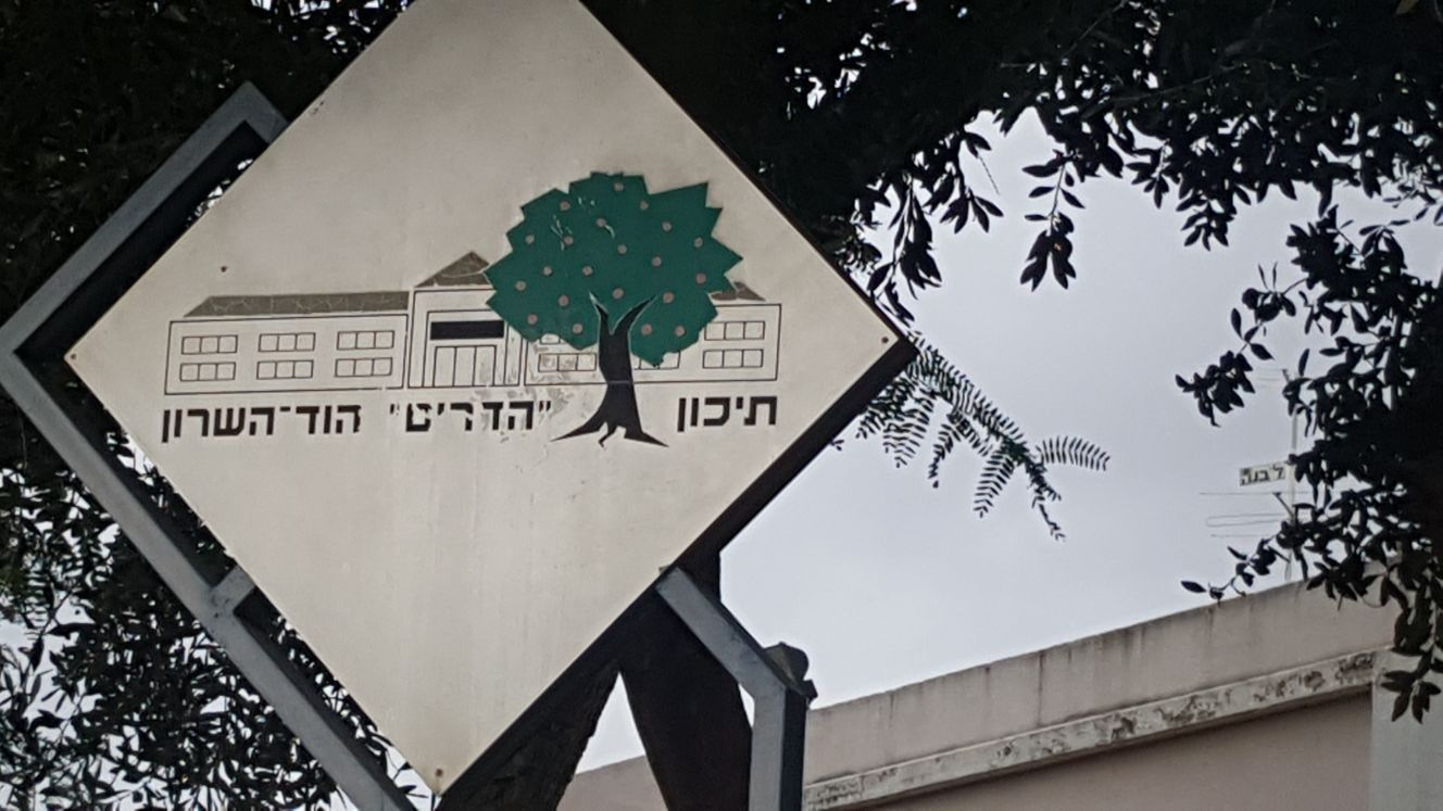 Hadarim high school, Hod Hasharon, Israel